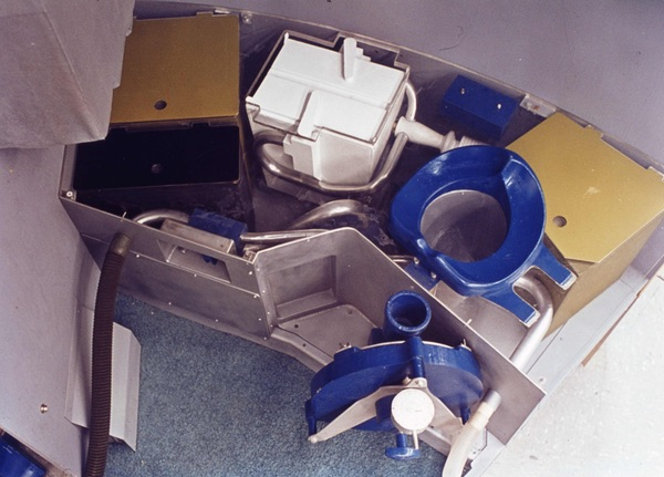 A mockup of the toilet that would be carried on MOL. Accommodating humans by providing life support, food, and hygiene facilities made MOL a more expensive program.